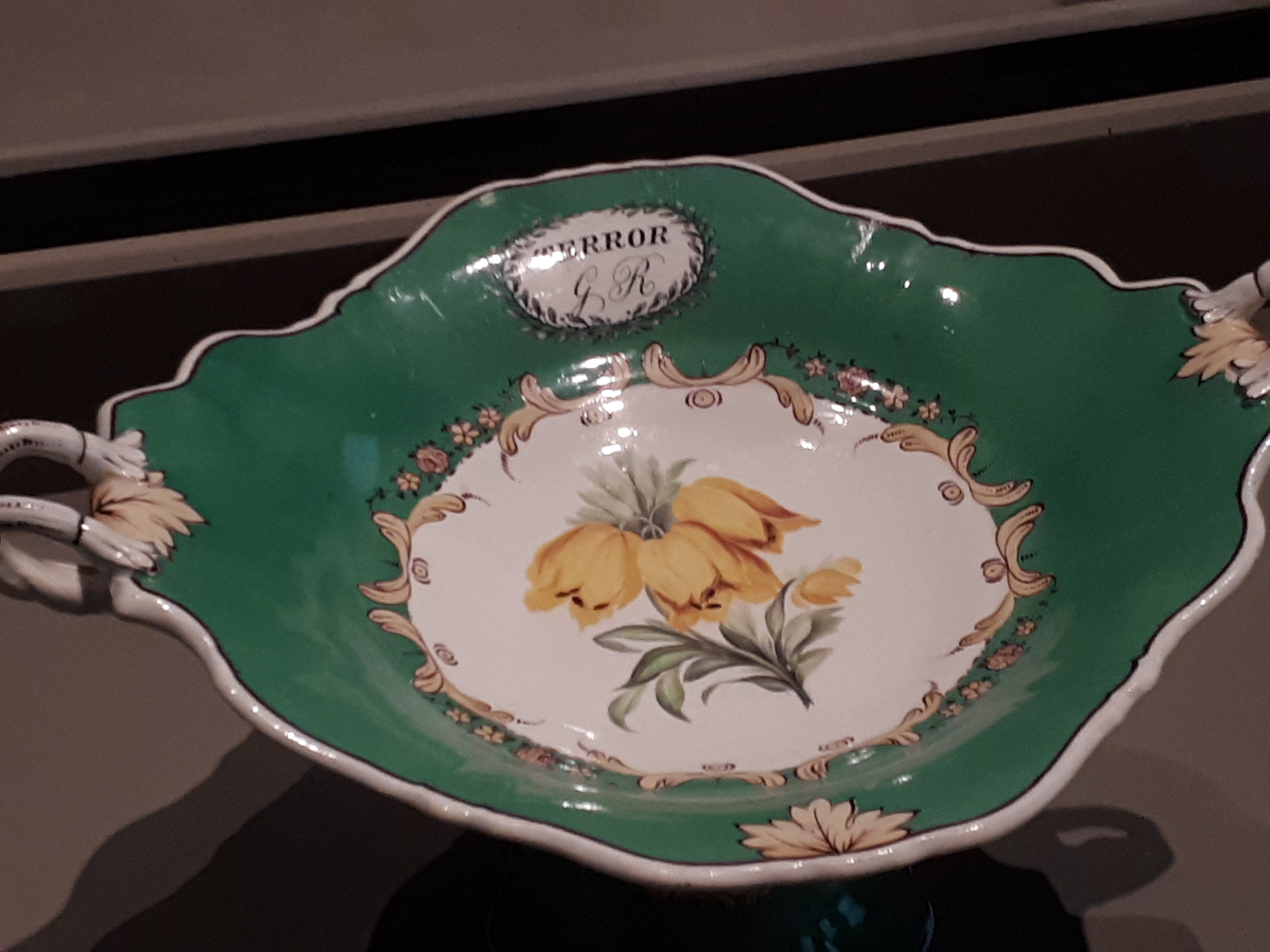 Chinaware from the HMS Terror. On display at the Canadian Museum of History.